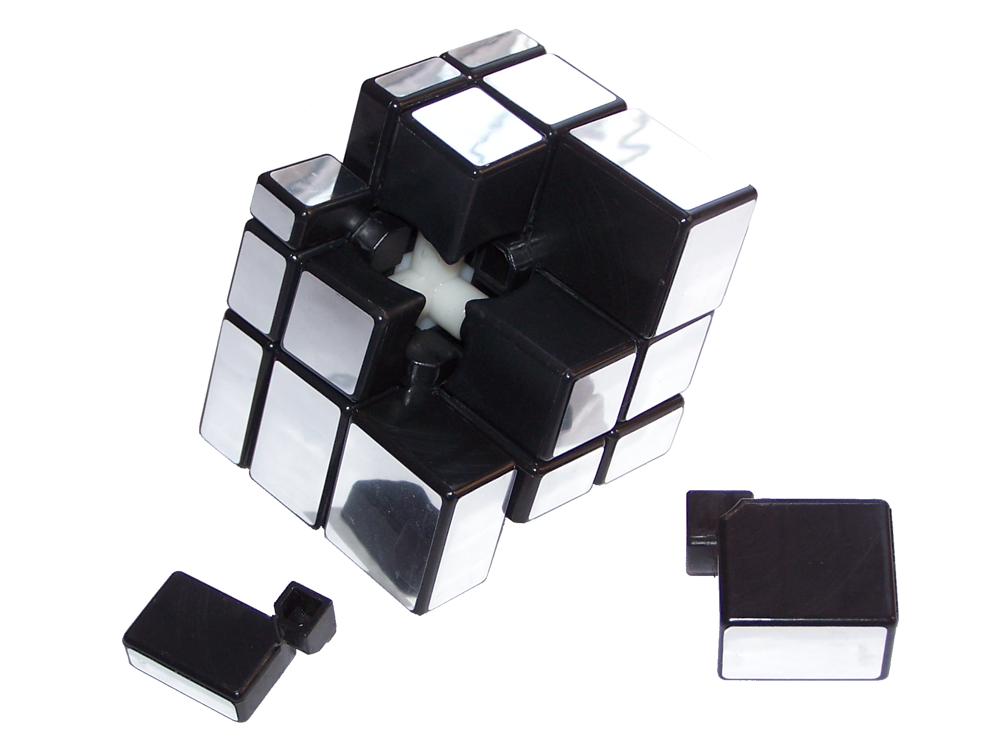 The Mirror Cube is a nearly normal Rubik's Cube. But instead of the diffrent colors, the cubies have a special size. You can solve it like a normal 3×3×3 Rubik's Cube. The picture shows the “Mirror Cube Silver”, one side is turned and some cubies has been removed, so that you can see the mechanism of this toy.